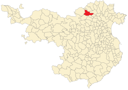 Darnius